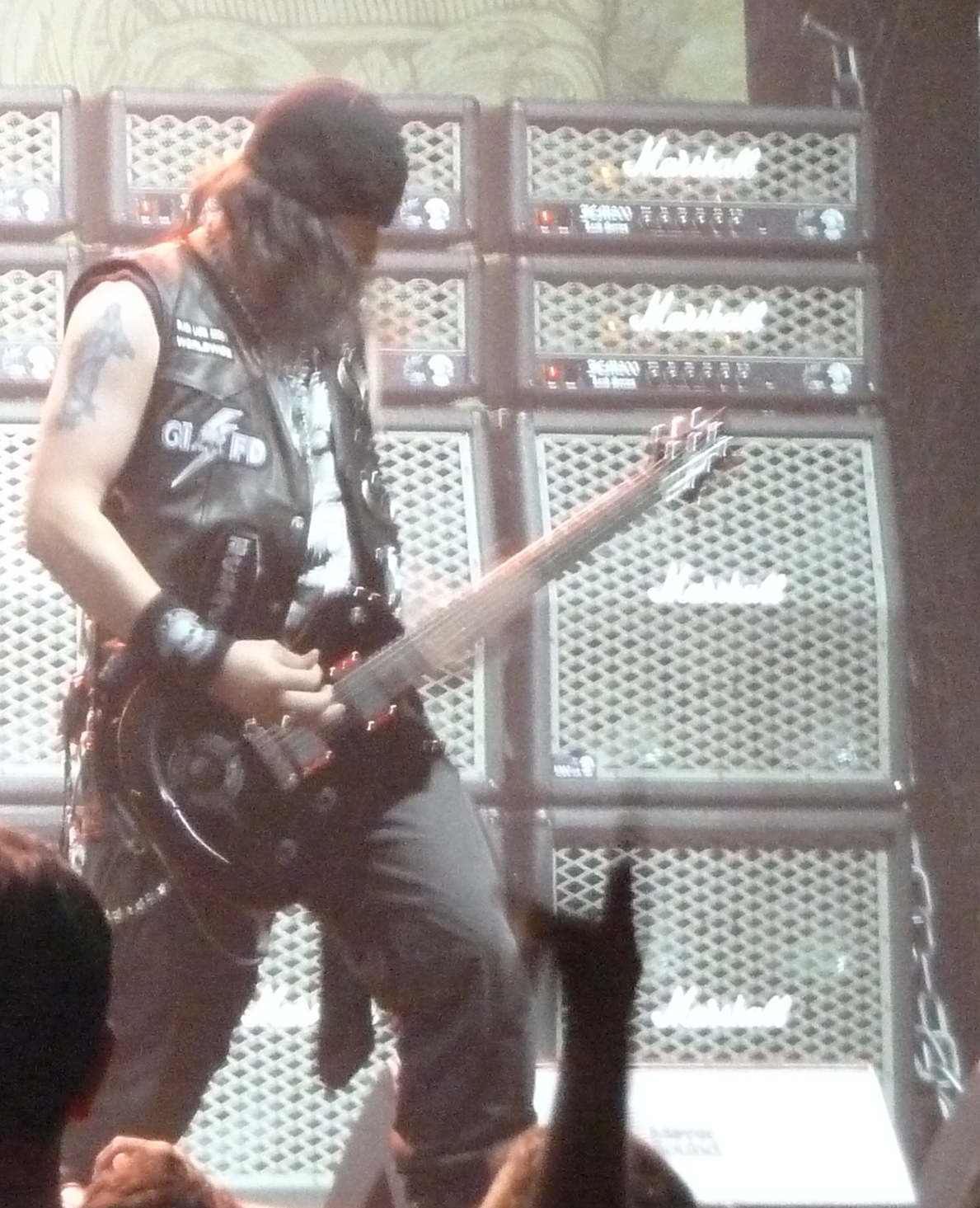 Nick Catanese performing with Black Label Society at Allen Event Center in Allen, Texas on October 16, 2011